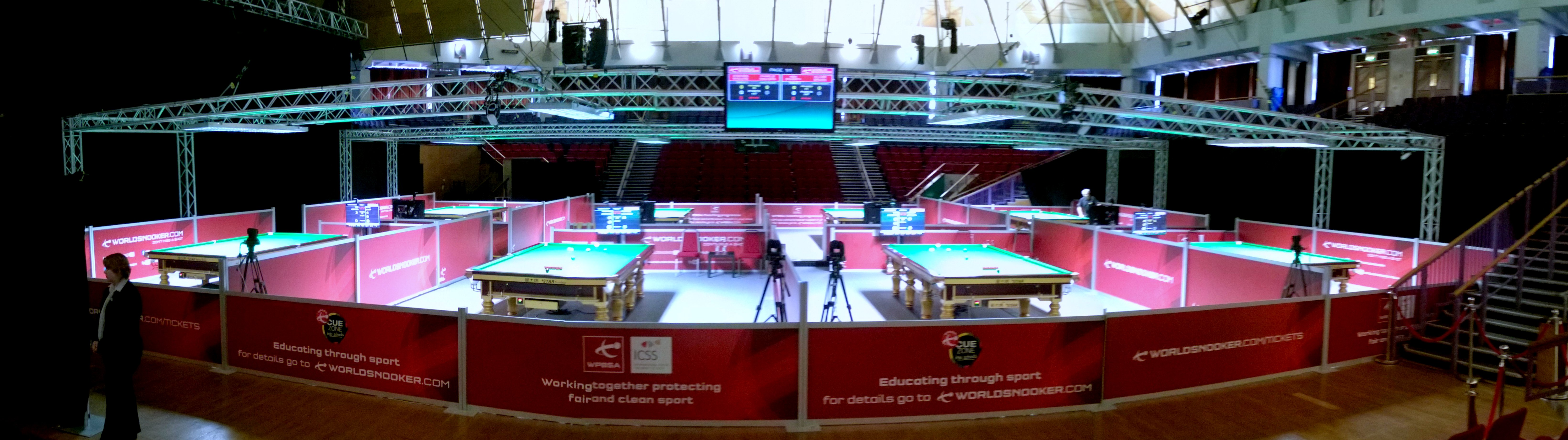 It's a crappy photo, but this really is the best illustration of the story of my day. It's qualifying for the India Open Snooker Tournament, so of course it's in...Preston. That might seem counter intuitive, but it's how these things are seemingly run. There are lots of snooker tournaments all around the world now, but the huge majority of snooker players - including many foreign ones - are based in the UK. For this reason, qualifying for lots of global events happens in the UK, and it's frequently in the north of England. It might seem strange to see qualifying for the Australian open in a leisure centre in Barnsley, but it really is what happens. In the Preston Guild Hall this week it seems qualifying events are taking place for three different events across the world. This works out really well for people who get knocked out in the first round and have saved the travel costs to India, but you do have to really feel for the Chinese lads we saw today who have probably had to fly out from China for their two hour match. I've never been to an event like this before, and if I'm honest I think I actually preferred it to the tournament play that I've seen before. There were eight tables, seating all the way around the arena and a tiny, tiny audience. I believe at one point, albeit briefly, the players and referees outnumbered the spectators. That's not to say the play wasn't worth seeing. There were some top names there, including Ken Doherty, Stephen Maguire, Shaun Murphy, Anthony McGill, Matthew Stevens, Barry Hawkins and even lurking on the back seats for a while Jimmy White! It was great fun to watch and it's pretty hard to argue with the value for money. Eight and a half hours of top quality live snooker. Ticket price...a fiver. Happy days. :)